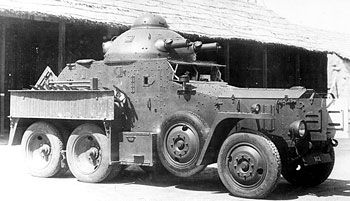 Crossley, 6 x 6, (Medium) Armoured Car. Date: 1932